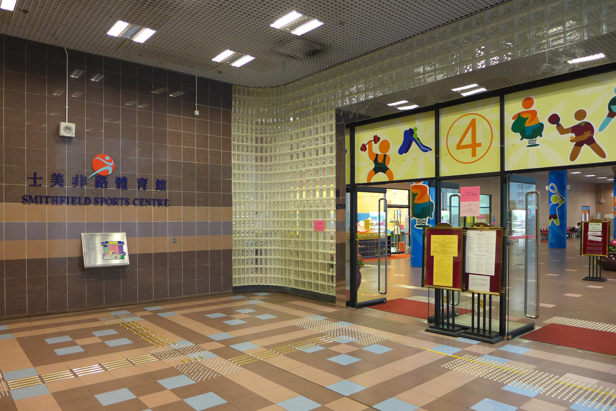 Smithfield Sports Centre Level 4 Entrance